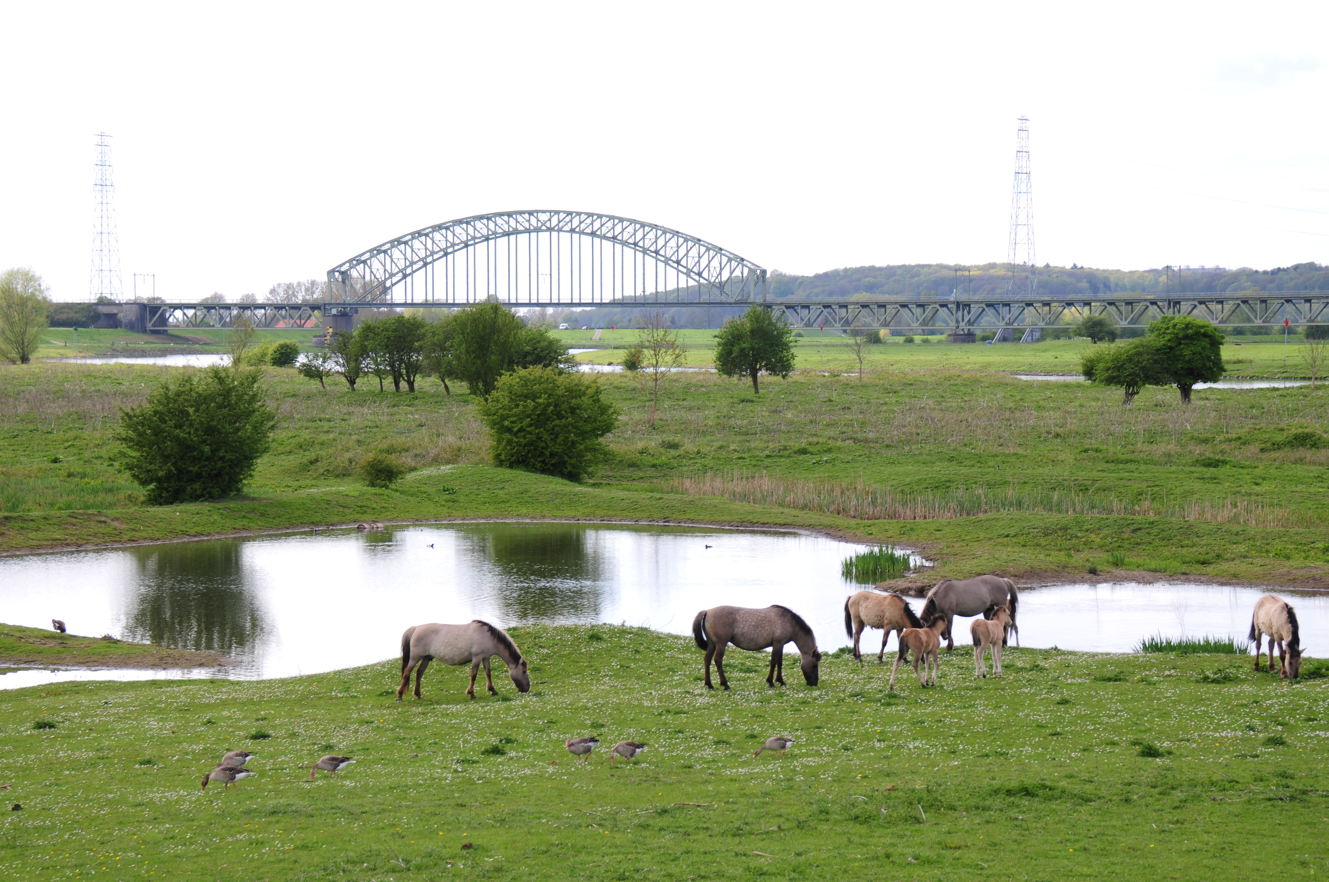 Panoramic view of Nature area Meinerswijk at Arnhem, with Konik (Polish) horses